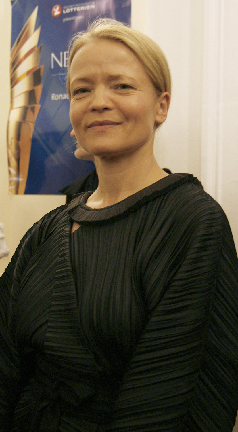 Actress Michou Friesz at the Nestroy-Theaterpreis (Etablissement Ronacher, Vienna)